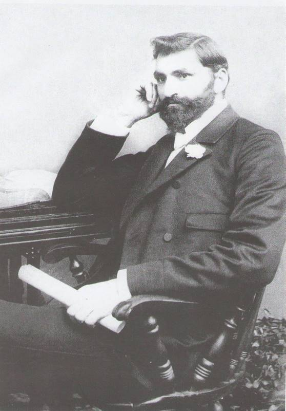 Stoyan Vatralski